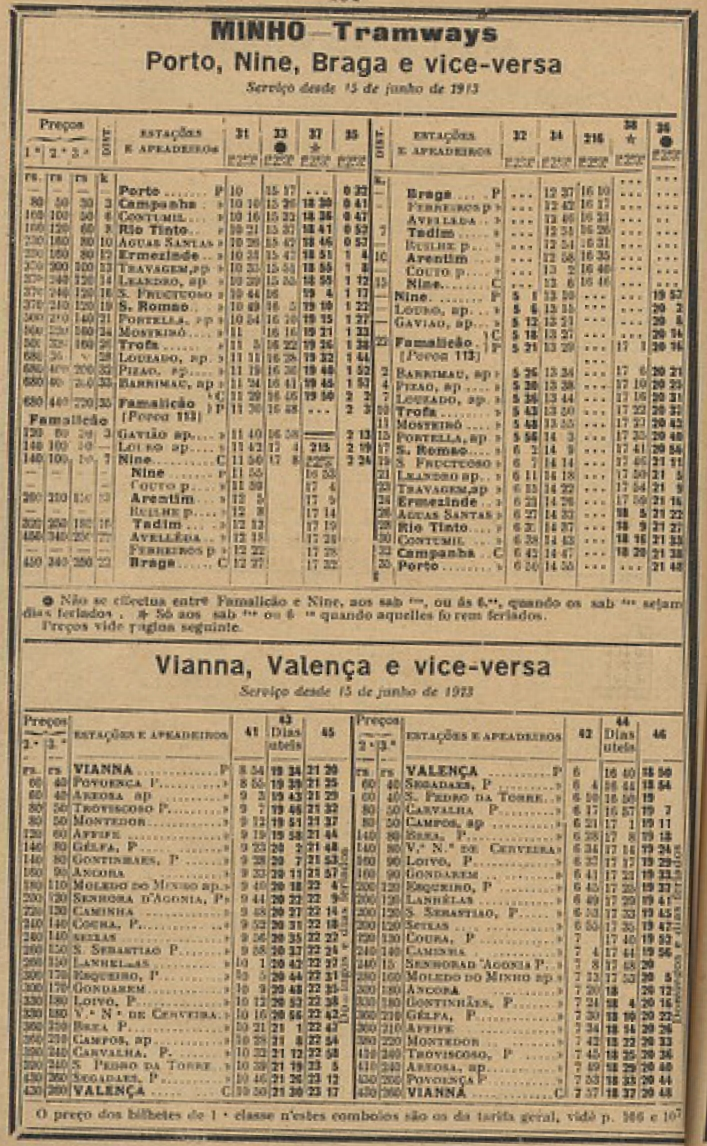 Timetable of the tramways (suburban trains) from Porto to Braga and from Viana do Castelo to Valença, in Portugal, on the 15th June 1913. This image was published on the Guia Official dos Caminhos de Ferro de Portugal No. 168, of October 1913, and scanned by the Biblioteca Nacional de Portugal.